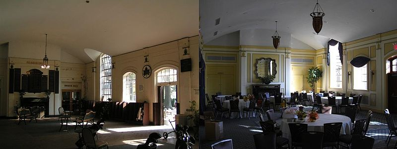 The main hall of the Dyker Beach Golf Course in 2005 and 2009